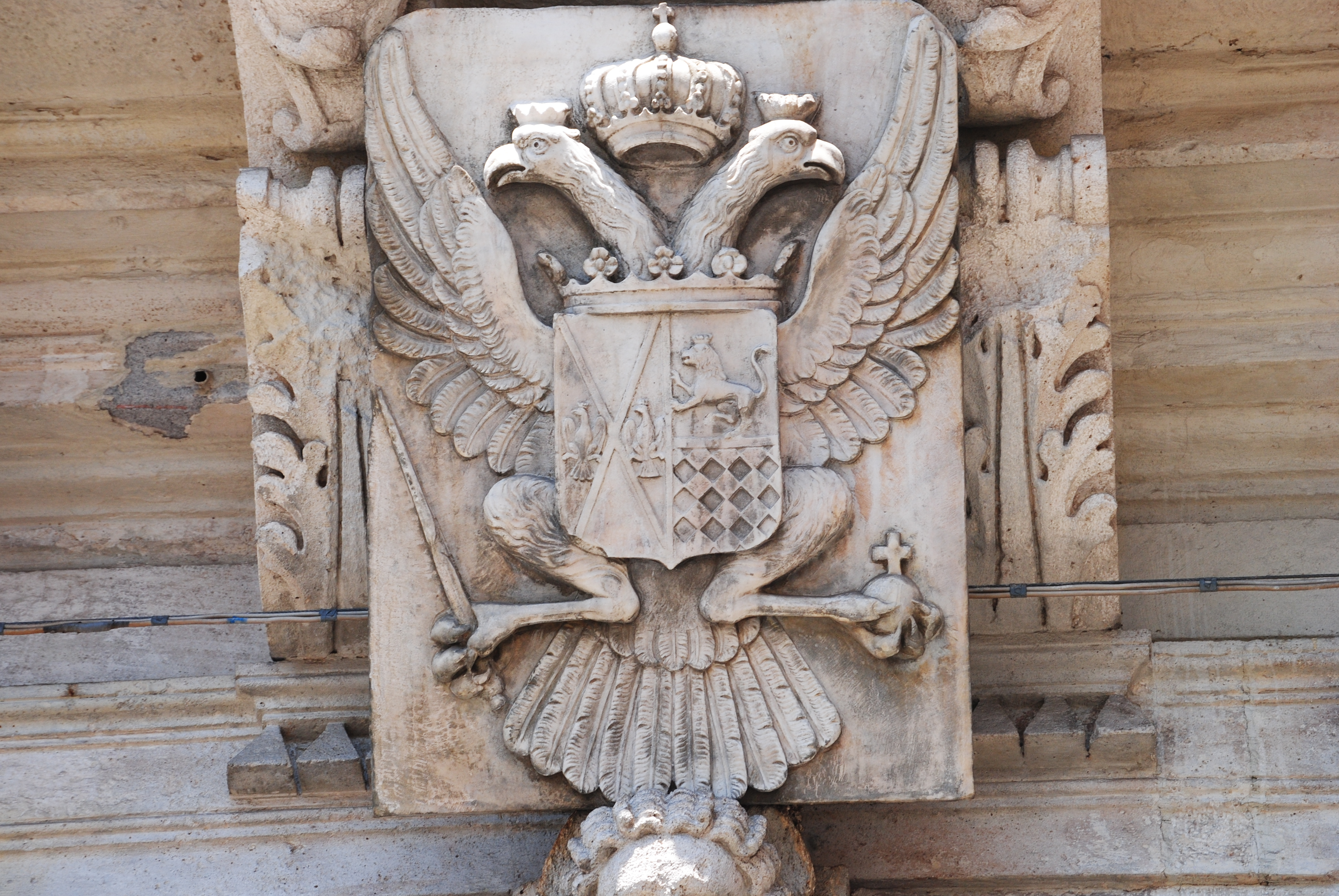 Scudo Gioeni d'Angiò